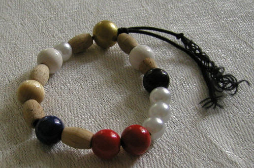 Pearls of Life